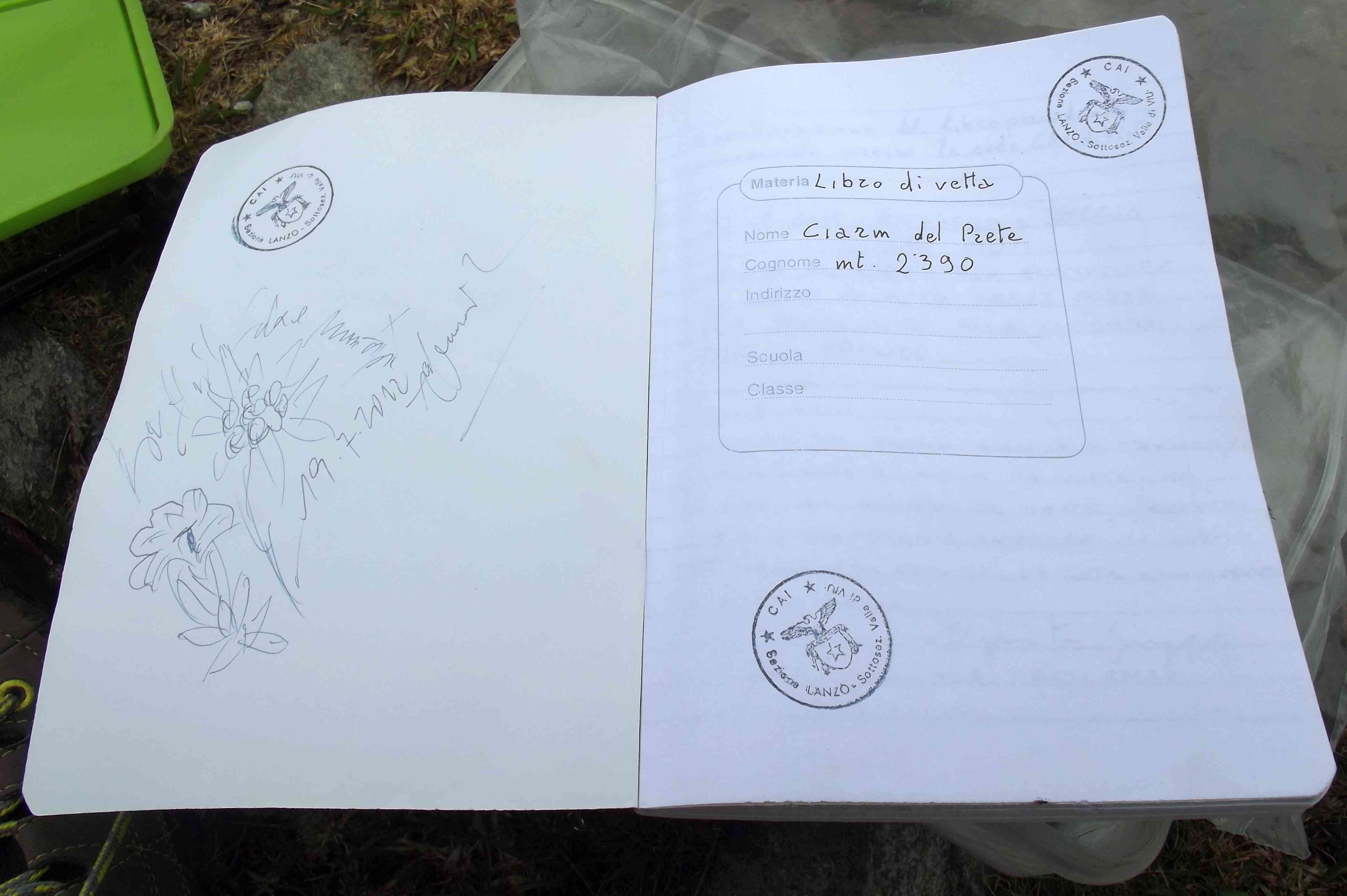 Ciarm del Prete (Graian Alps, Italy): summit register